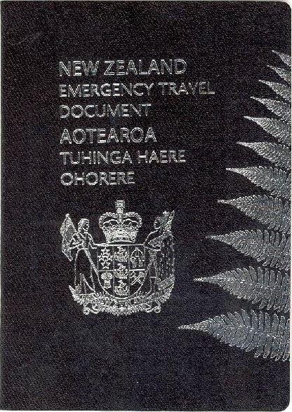 Front cover of New Zealand Emergency Passport